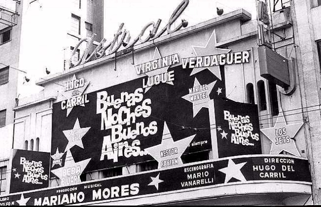 Astral Theatre, showing "Buenas noches Buenos Aires", Buenos Aires, 1963. Mariano Mores, Hugo del Carril, Néstor Fabián, Virgina Luque, Beba Bidart, Verdaguer, Víctor Ayos.